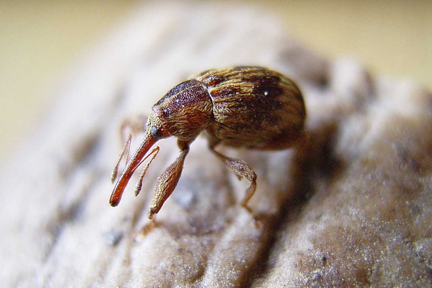 most probably Anthonomus rectirostris (=Furcipus rectirostris)